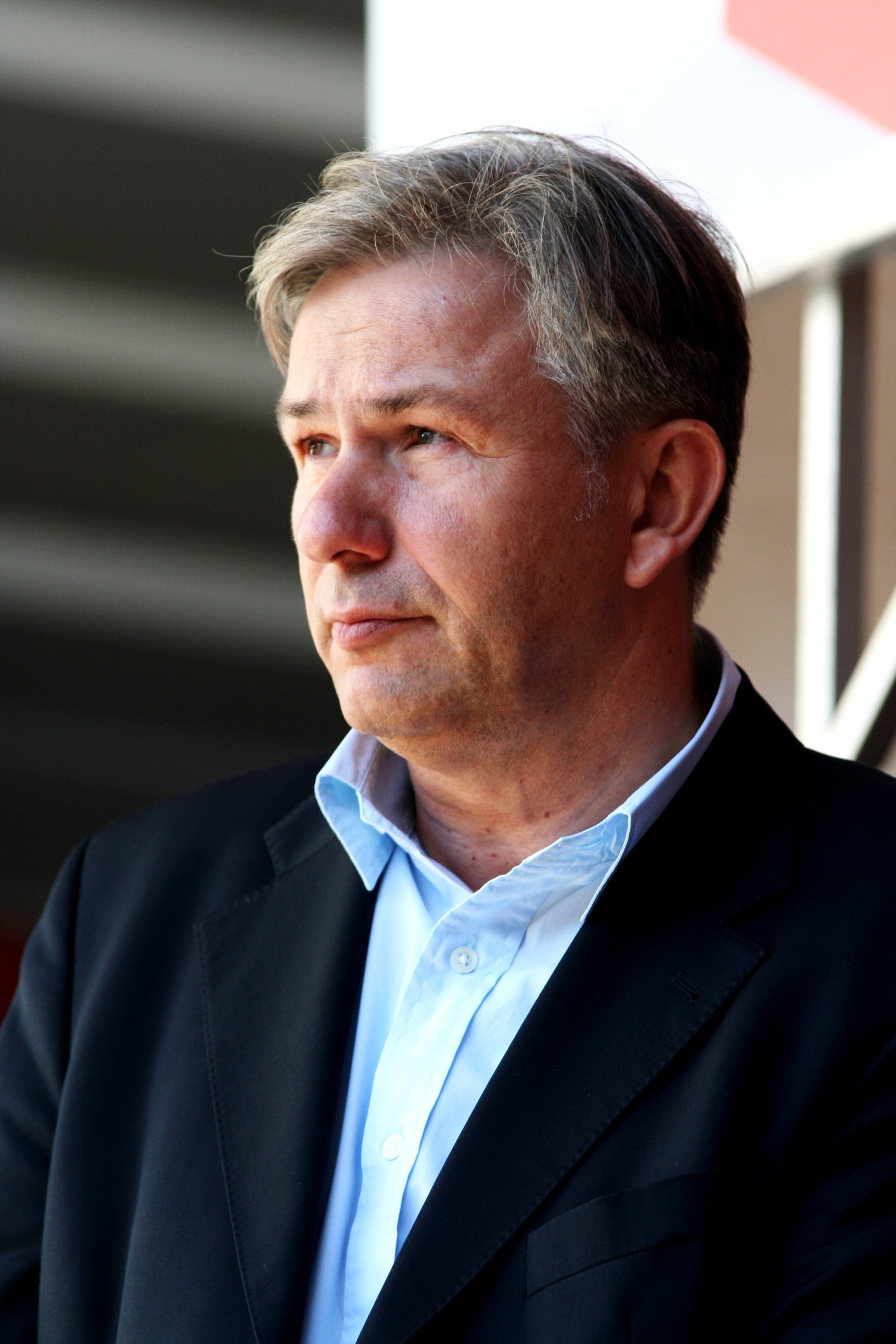 Klaus Wowereit (SPD), during an election campaign in Berlin-Tegel